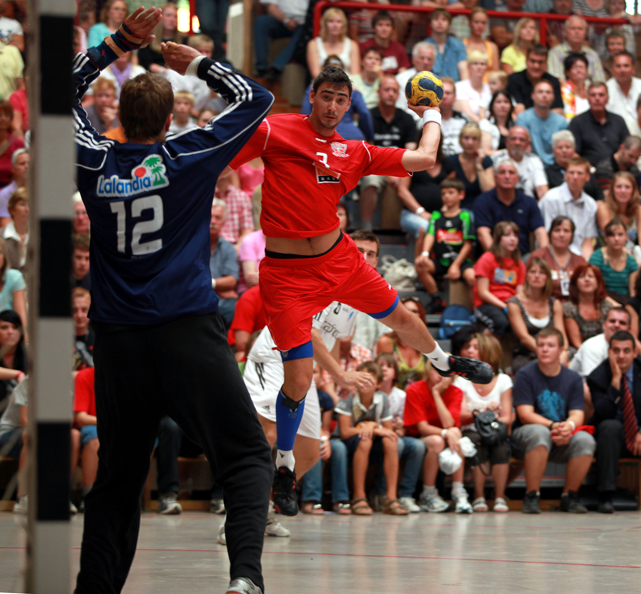 Péter Gulyás, Hungarian handball player, playing for MKB Veszprém, on August 22nd, 2009 in Ehingen (Germany), during the Schlecker Cup 2009.